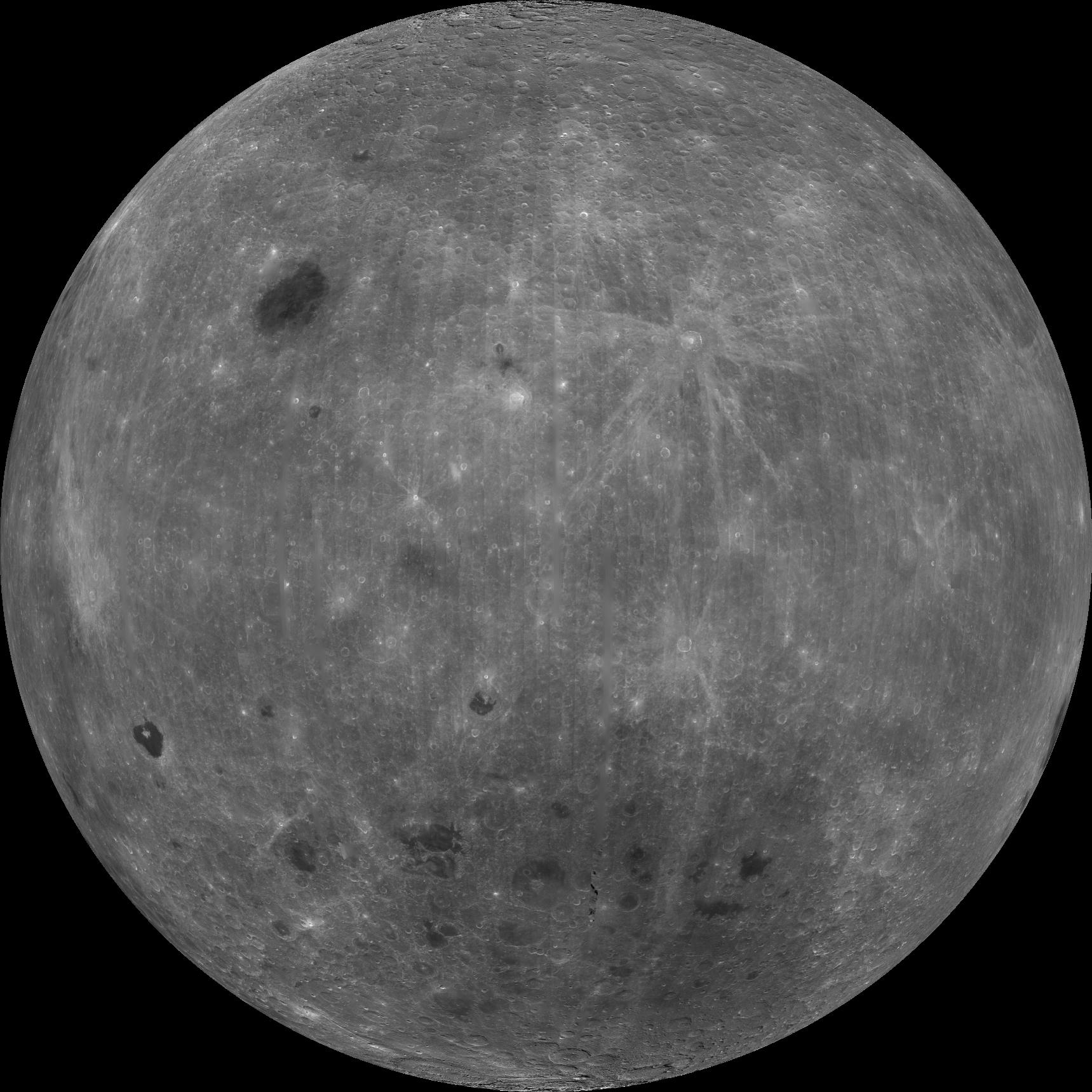 Original Caption Released with Image: About 50,000 Clementine images were processed to produce the four orthographic views of the Moon. Images PIA00302, PIA00303, PIA00304, and PIA00305 show albedo variations (normalized brightness or reflectivity) of the surface at a wavelength of 750 nm (just longward of visible red). The image projection is centered at 0 degree latitude and 180 degrees longitude. Mare Moscoviense (dark albedo feature upper left of image center) and South Pole-Aitken Basin (dark feature at bottom) represent maria regions largely absent on the lunar farside. The Clementine altimeter showed Aitken Basin to consist of a topographic rim about 2500 km in diameter, an inner shelf ranging from 400 to 600 km in width, and an irregular depressed floor about 12 km in depth.